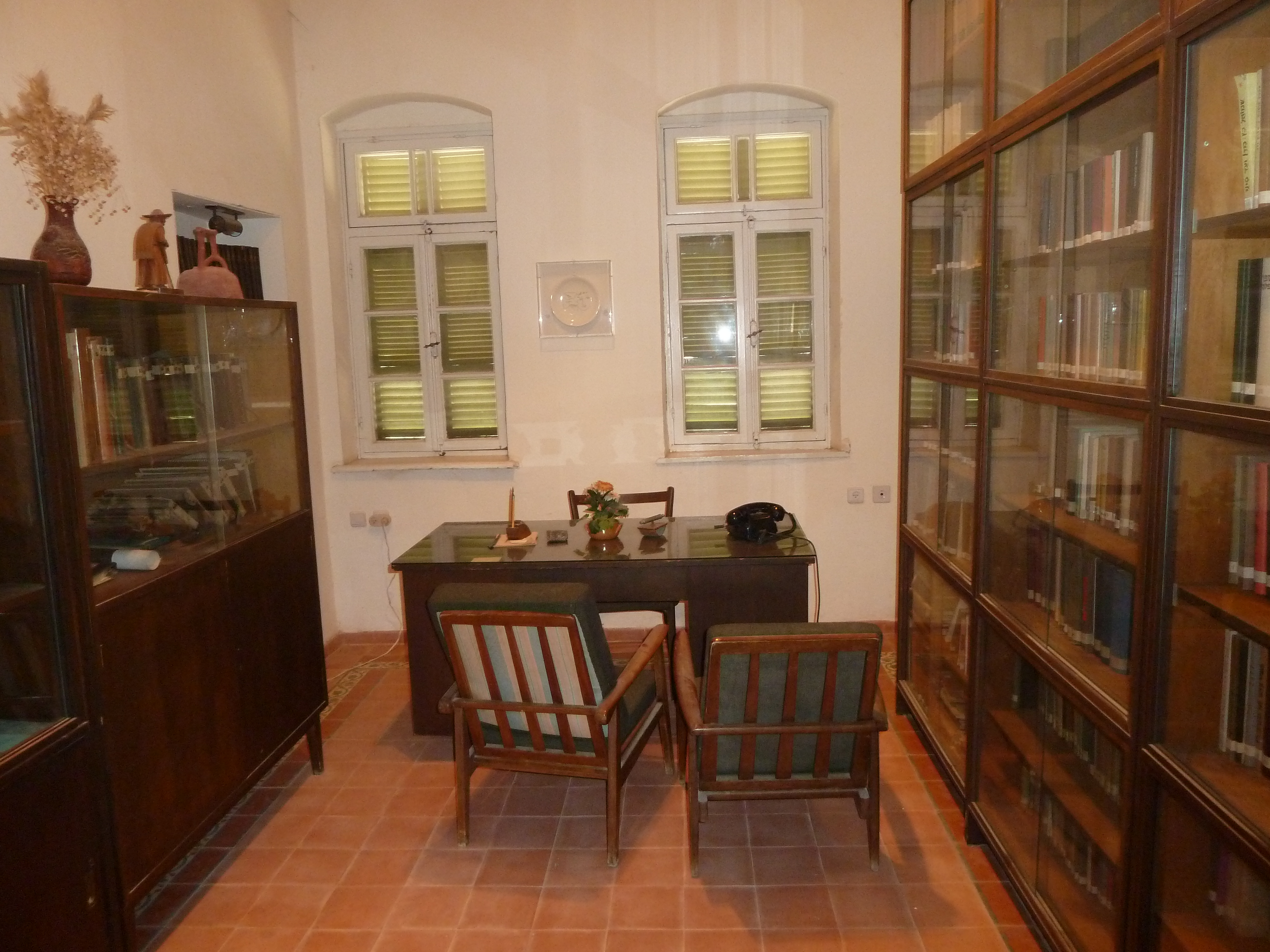 Meir Ya'ari's House, the Large Yard at Merhavia (Merhavia Courtyard)